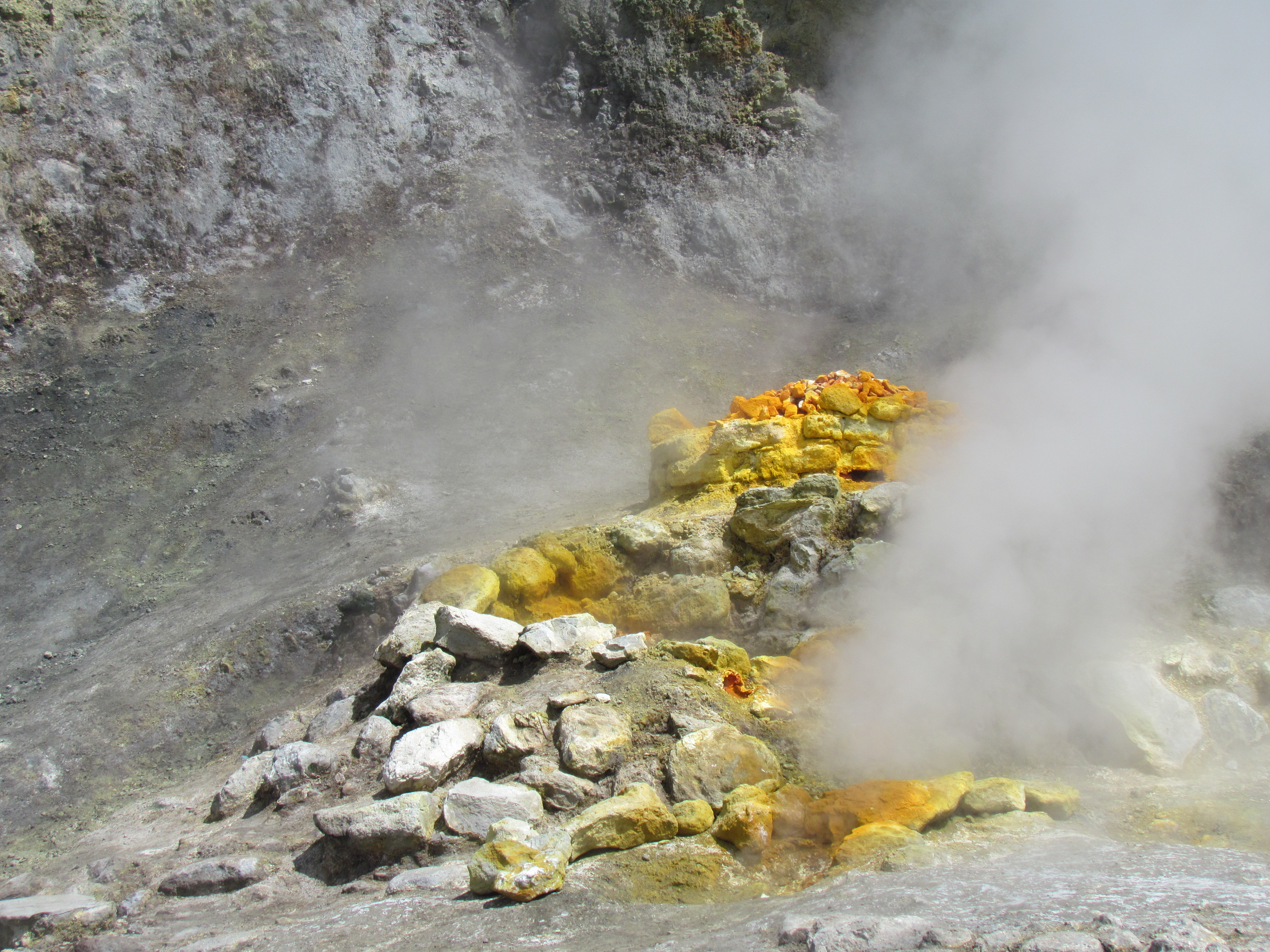 Fumarole in the crater of an extinct volcano Solfatara di Pozzuoli, Campi Flegrei, southern Italy